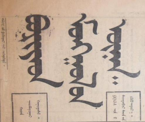 Буряад-Монголон унэн newspaper logo (1925)